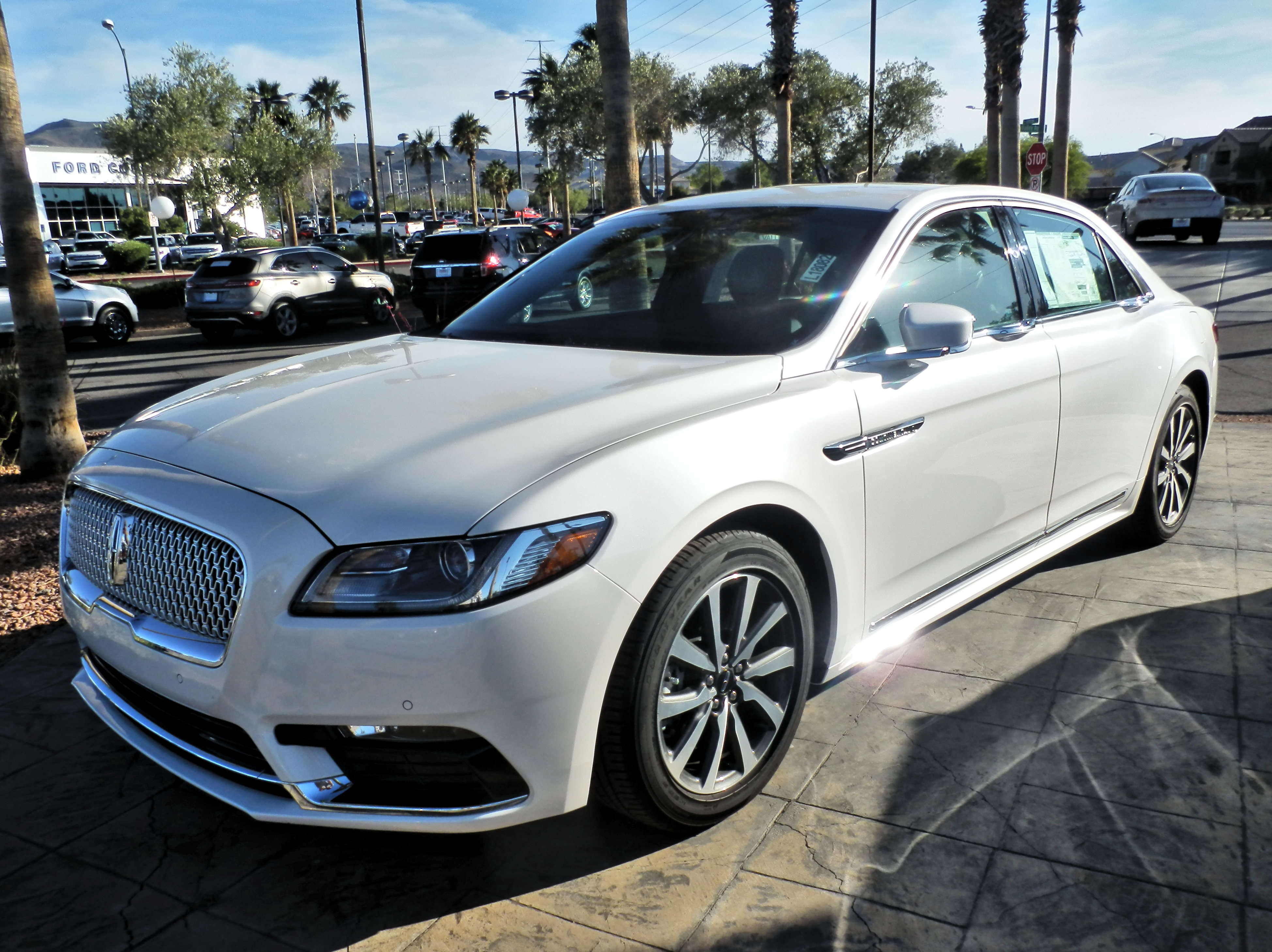 Lincoln Continental in Las Vegas